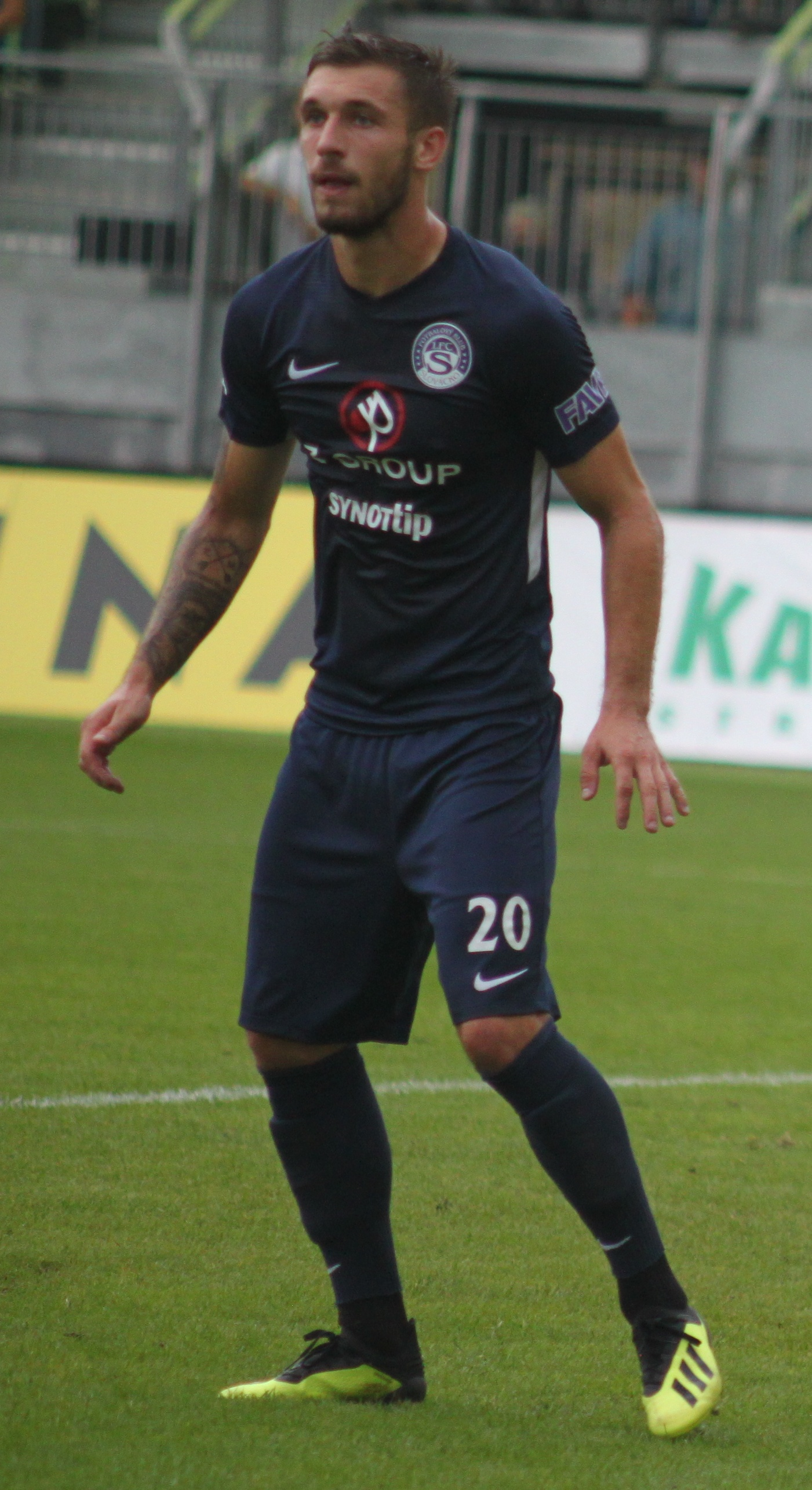 Marek Havlík at MFK Karviná-1. FC Slovácko match (2018)